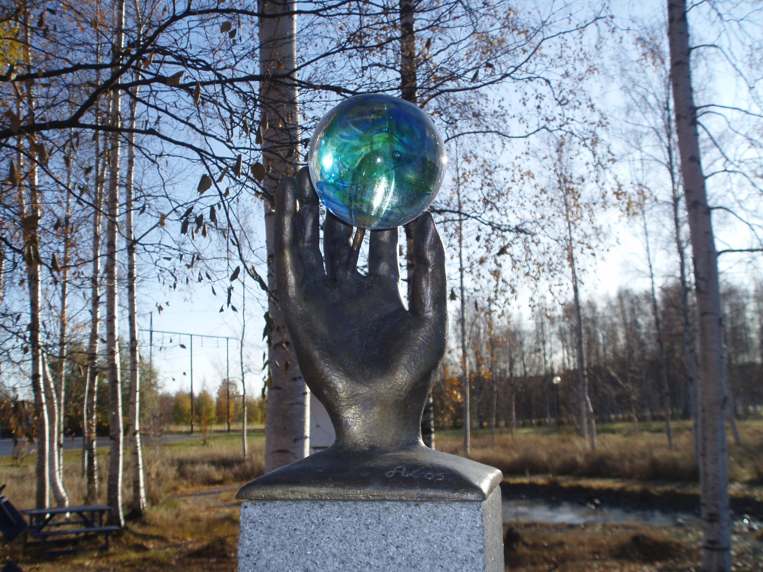 Model of Sedna in Luleå, part of the Sweden Solar System.